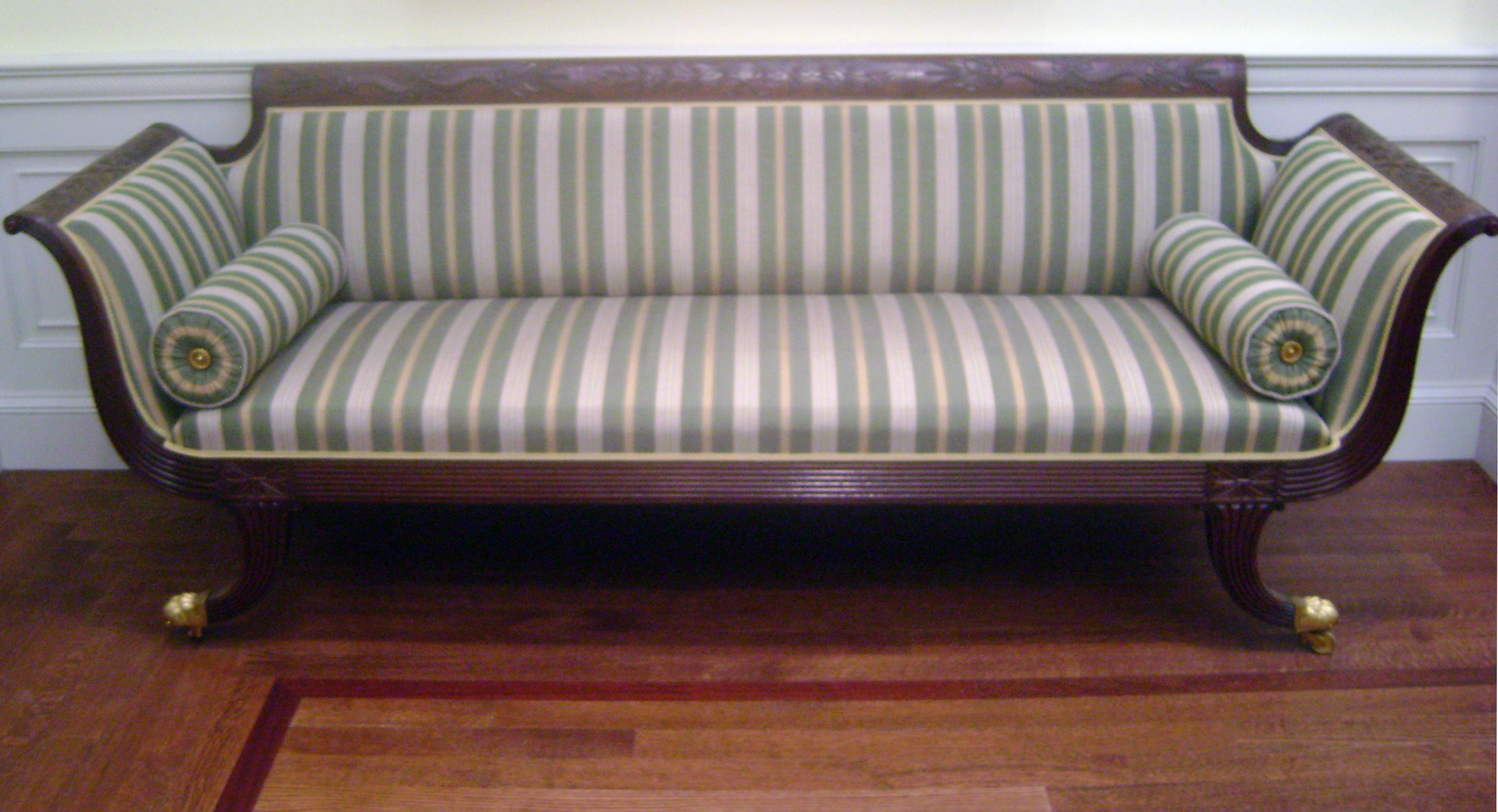 Sofa. United States, New York, ca. 1810-15. Attributed to the workshop of Duncan Phyfe Mahogany, cherry, pine, gilt brass, and modern upholstery. On loan to the Cincinnati Art Museum from the National Society of the Colonial Dames of America in the State of Ohio.